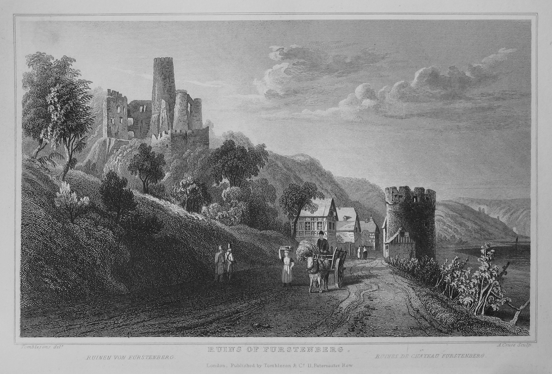 Steel engraving from "Views of the Rhine" by William Tombleson (around 1840): Ruins of the Fuerstenberg Castle